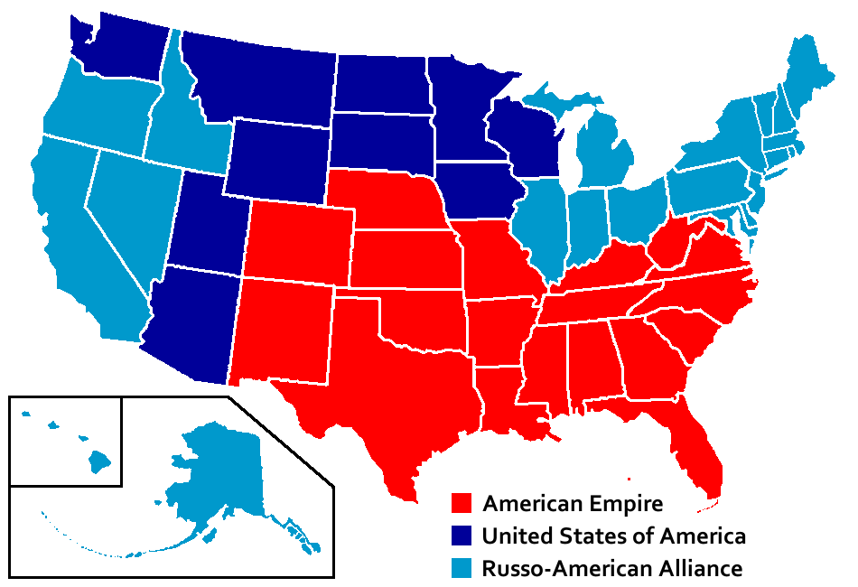 A map from Ghost in the Shell/Appleseed, showing the political partition of the United States